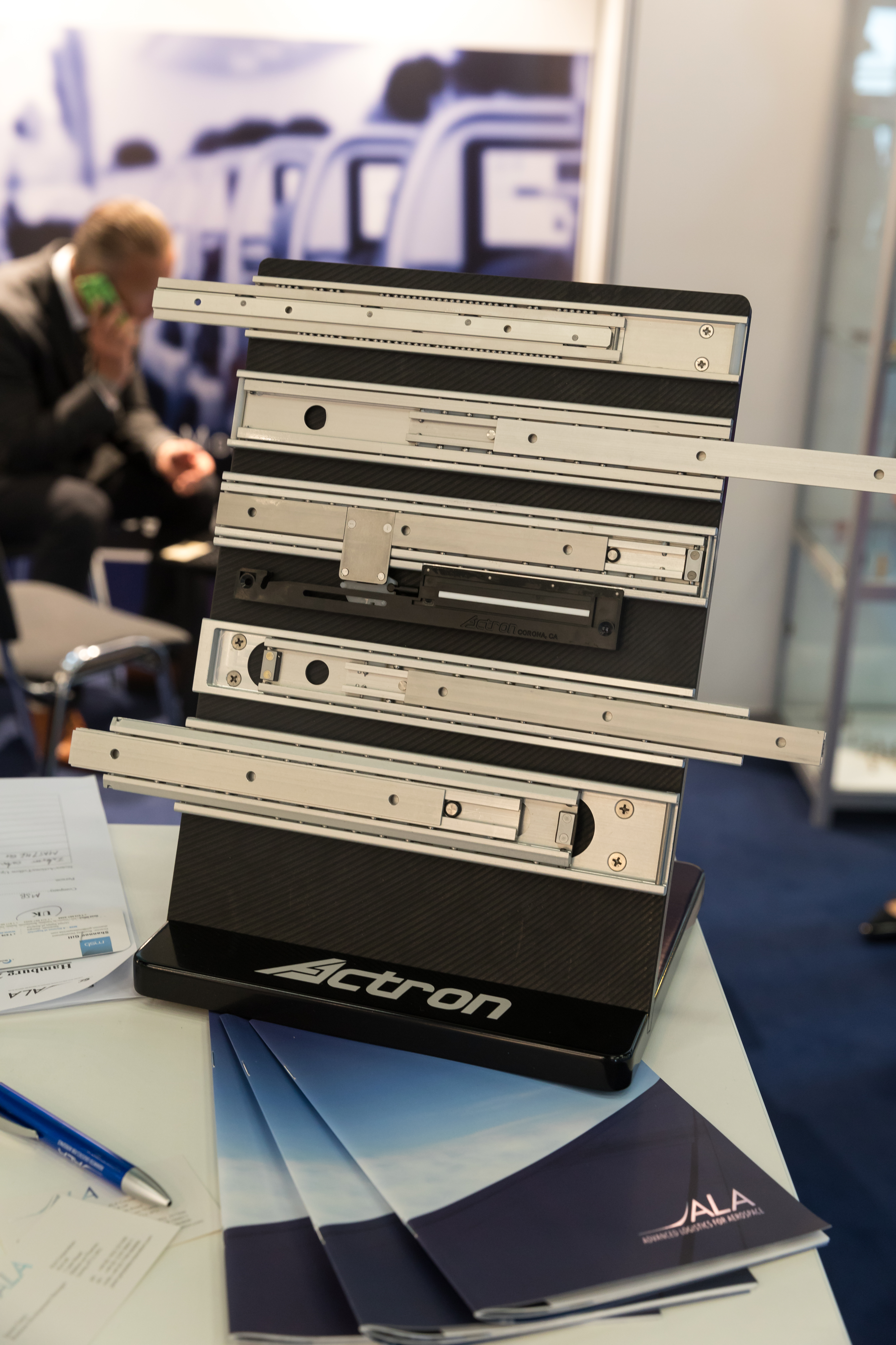 Precision linear guidings for aviation purposes at Passenger Experience Week 2018, Hamburg